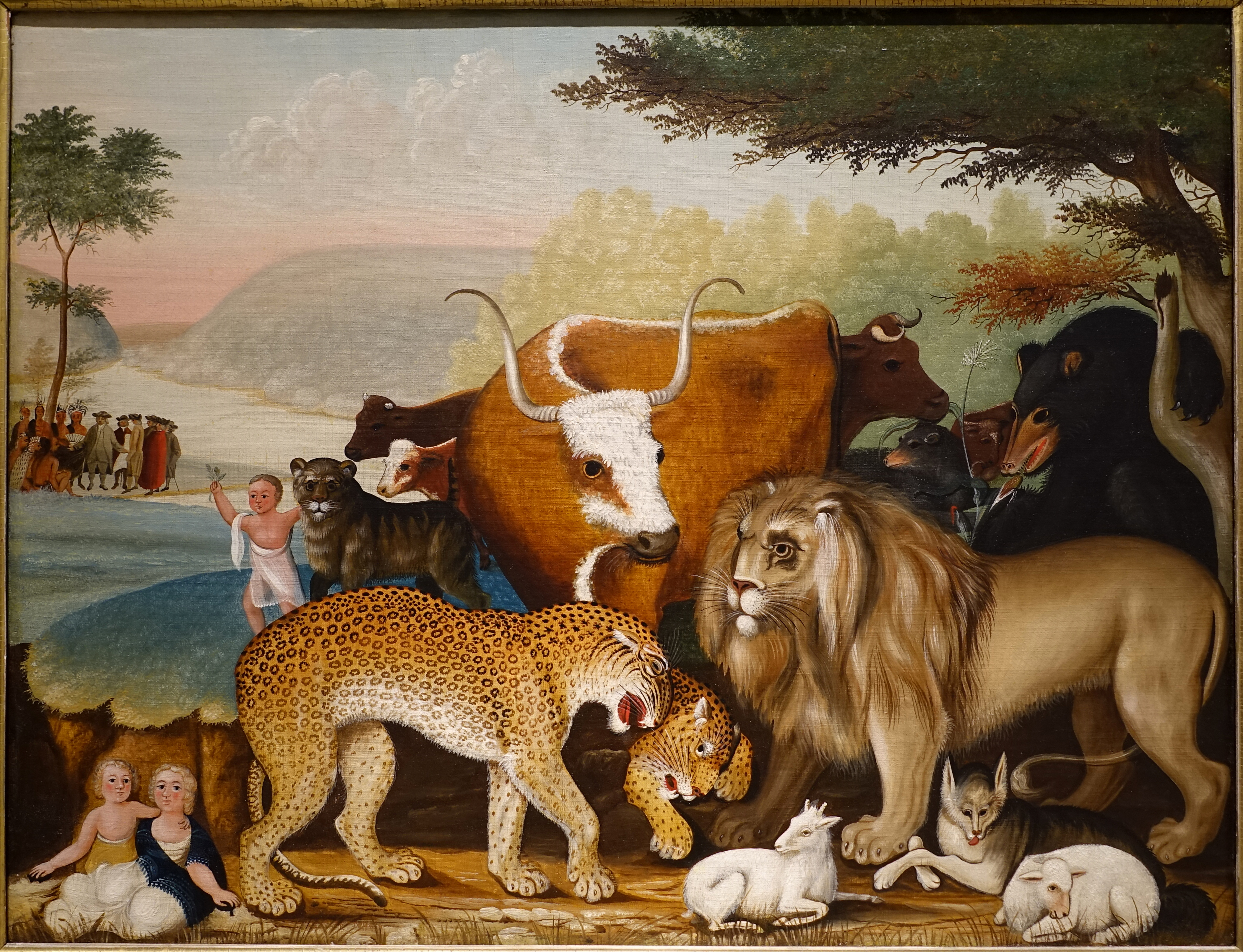 Exhibit in the Dallas Museum of Art, Dallas, Texas, USA.